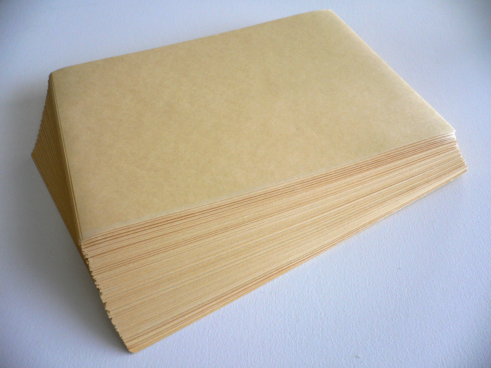 A sheaf / stack of manila paper on top of a blank cotton canvas. Photograph was taken by on 11/11 2006.